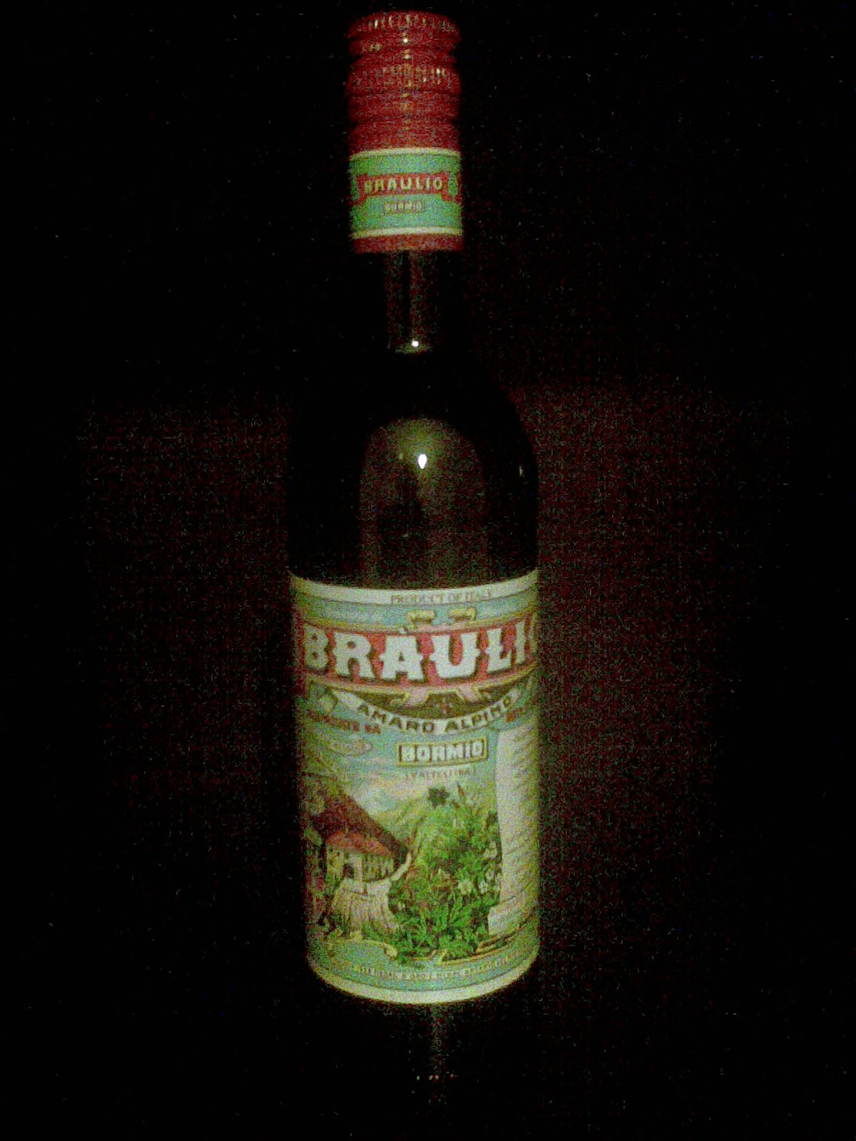 LowRes Braulio bottle.